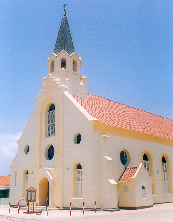 St. Anna Church was built in 1776. It is a Catholic church, which is the main religion on Aruba.